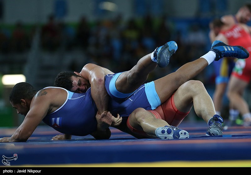 Rio 2016; Greco-Roman Wrestling 98 kg